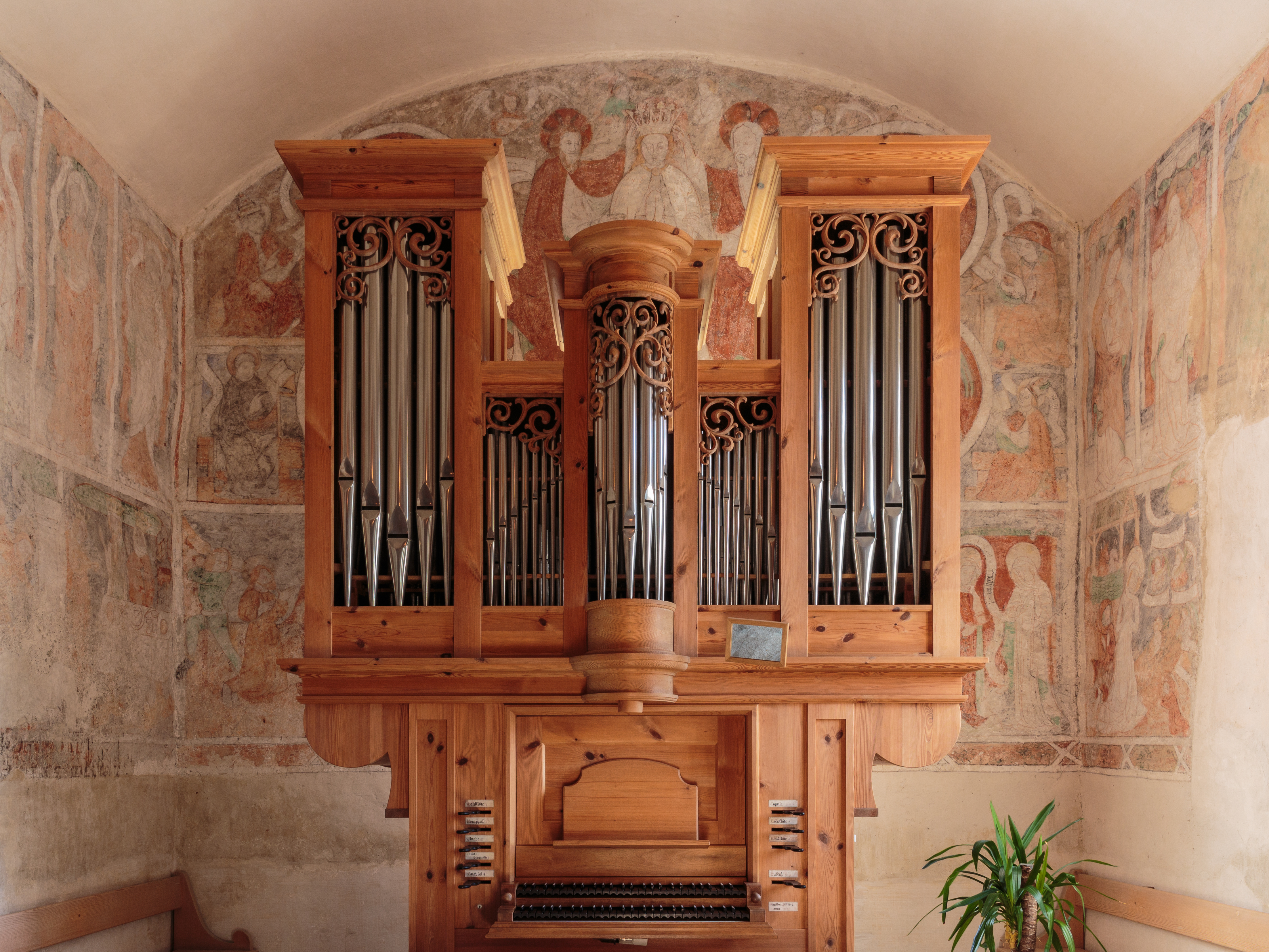 Waltensburg / Vuorz, Switzerland. reformed church with beautiful frescoes. (Church organ).